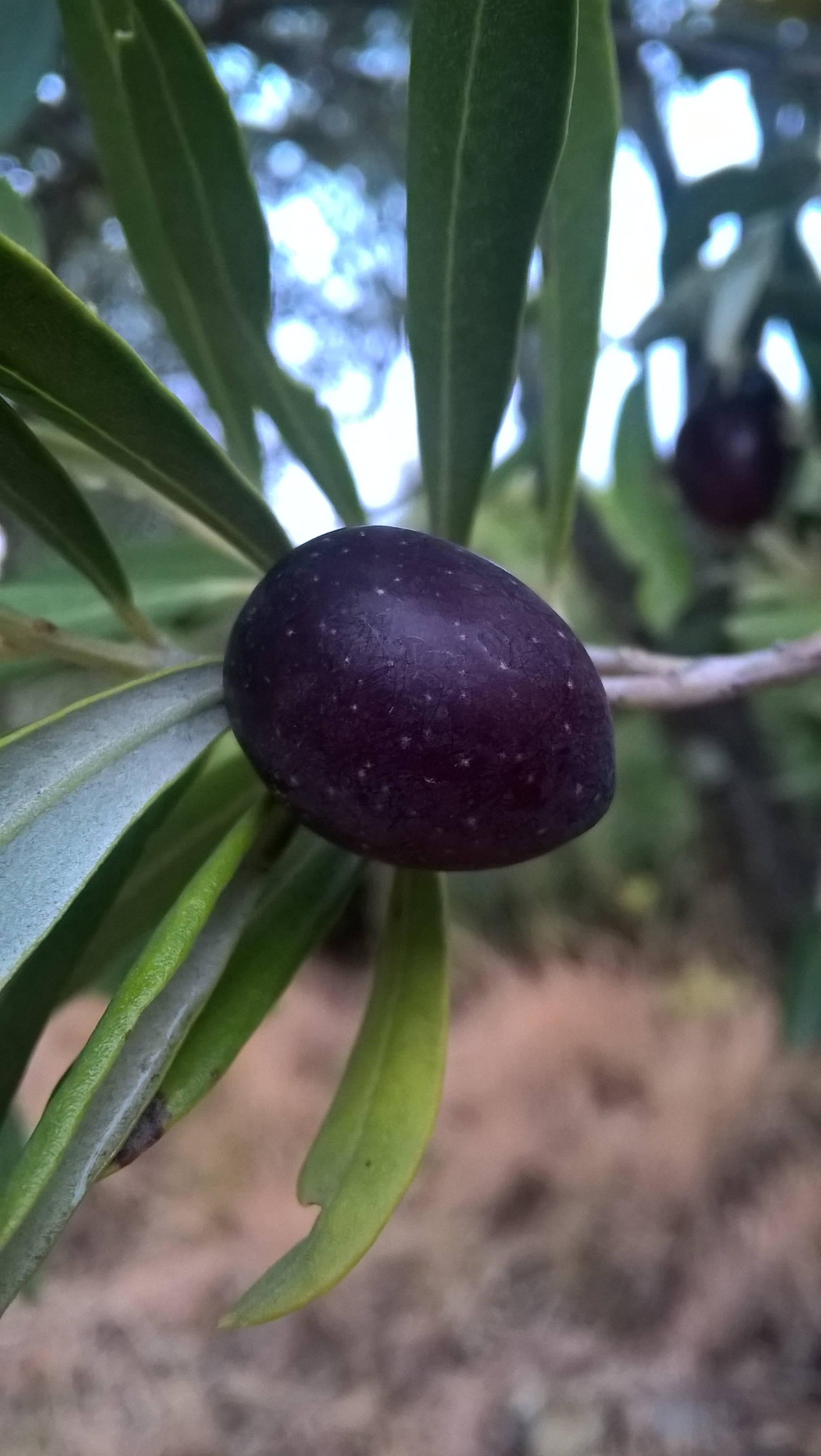 حبَّة زيتون من منطقة جبالة في المغرب.